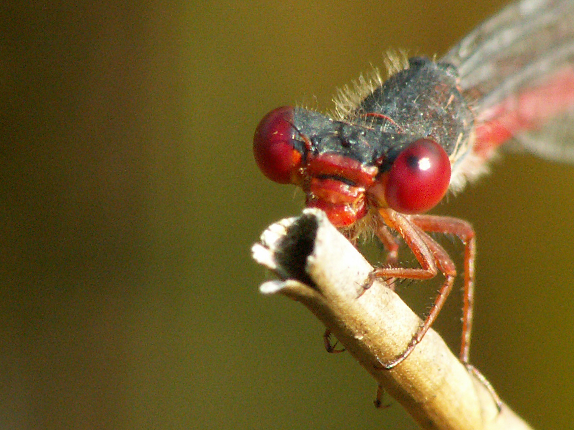 Ceriagrion tenellum Head Brunssummer Heide the Netherlands